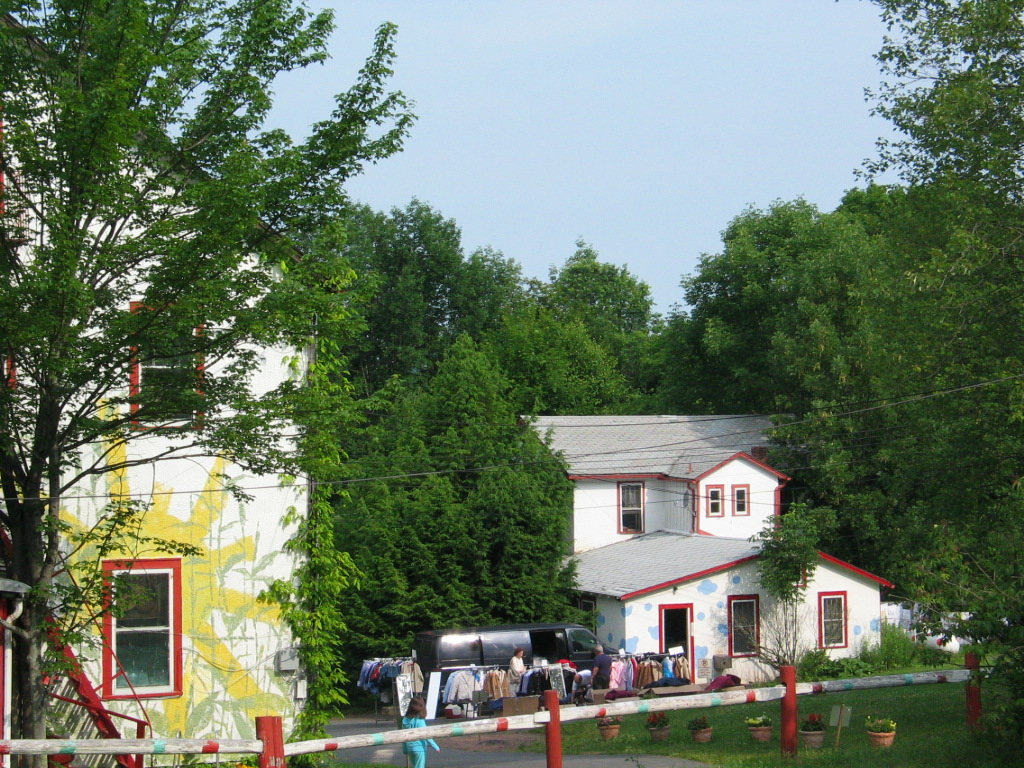 Family Resort in Catskill Mountains, New York